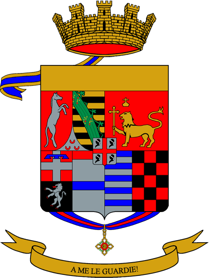 Coat of Arms of the 3° Granatieri Regiment; Italian Army.